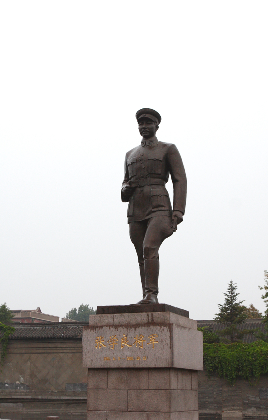 Zhang Xueliang's statue, Shenyang, China